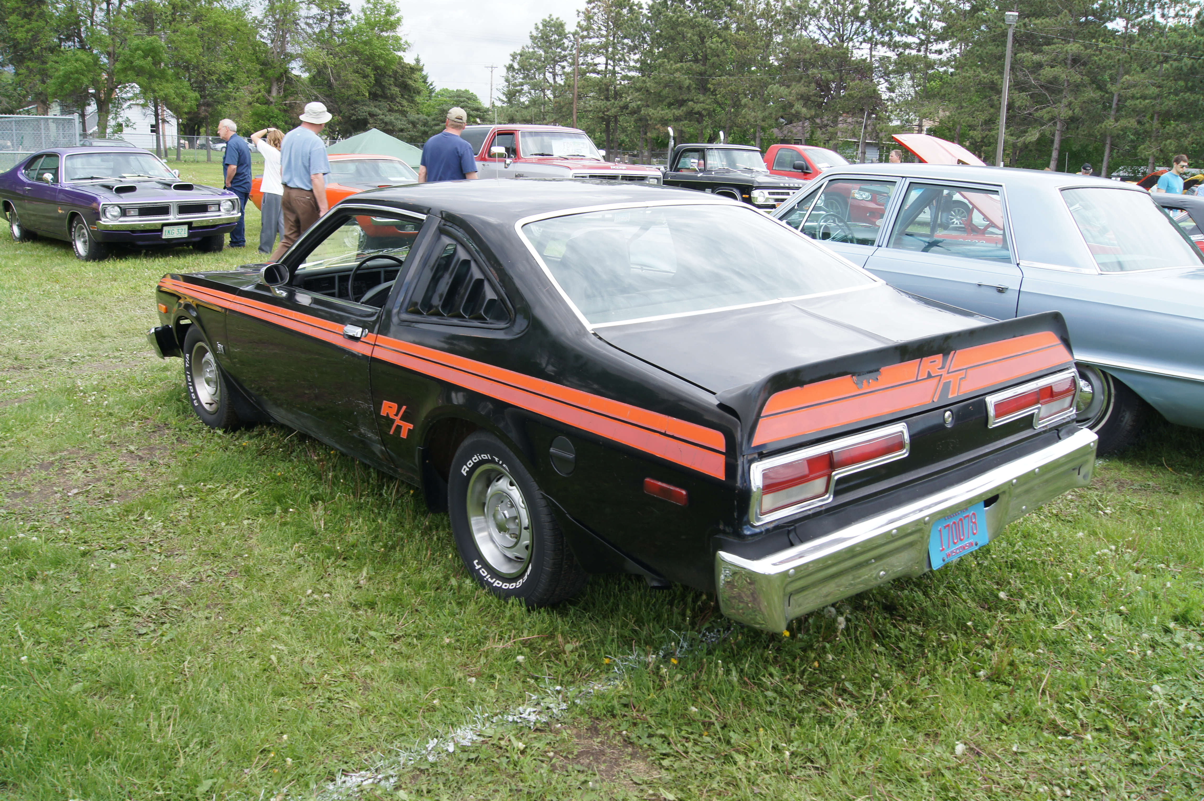 29th Annual Midwest Mopars in the Park Car Show & Swap Meet Thousands of car pictures at the link below